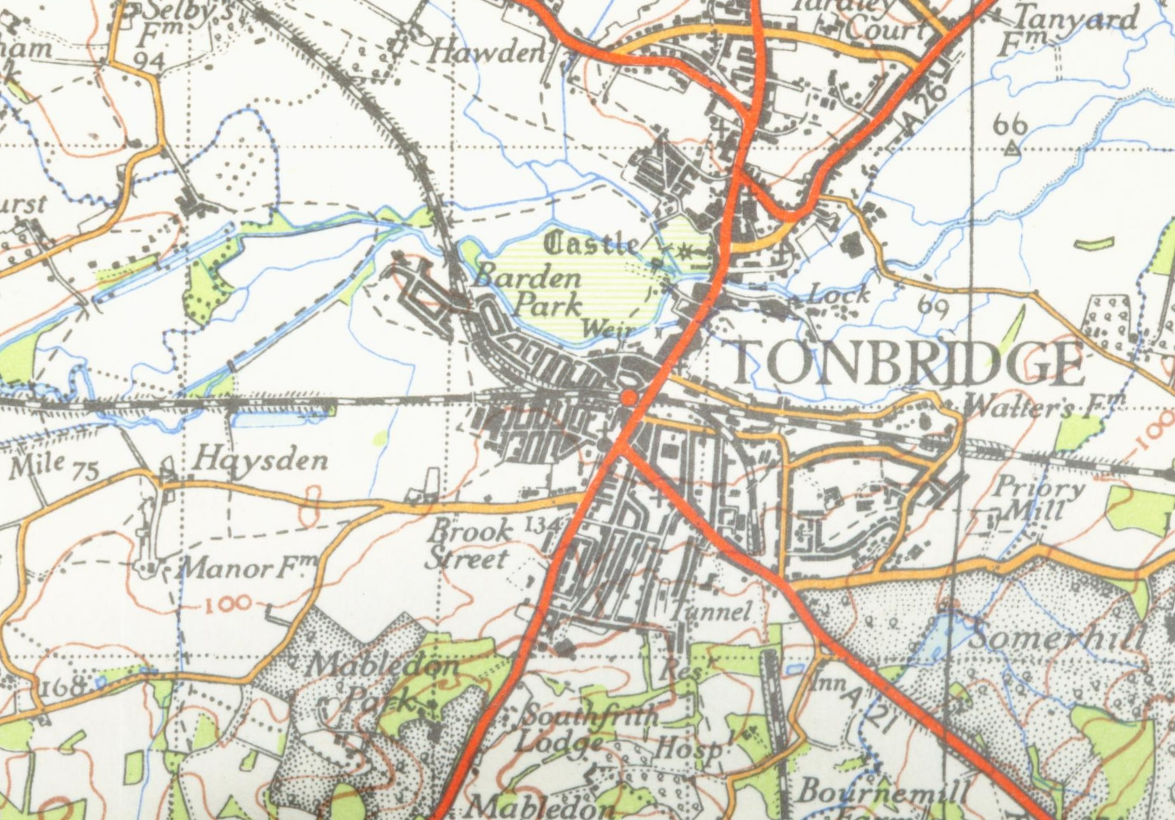 map of Tonbridge 1 inch to the mile scale scanned at 600 DPI